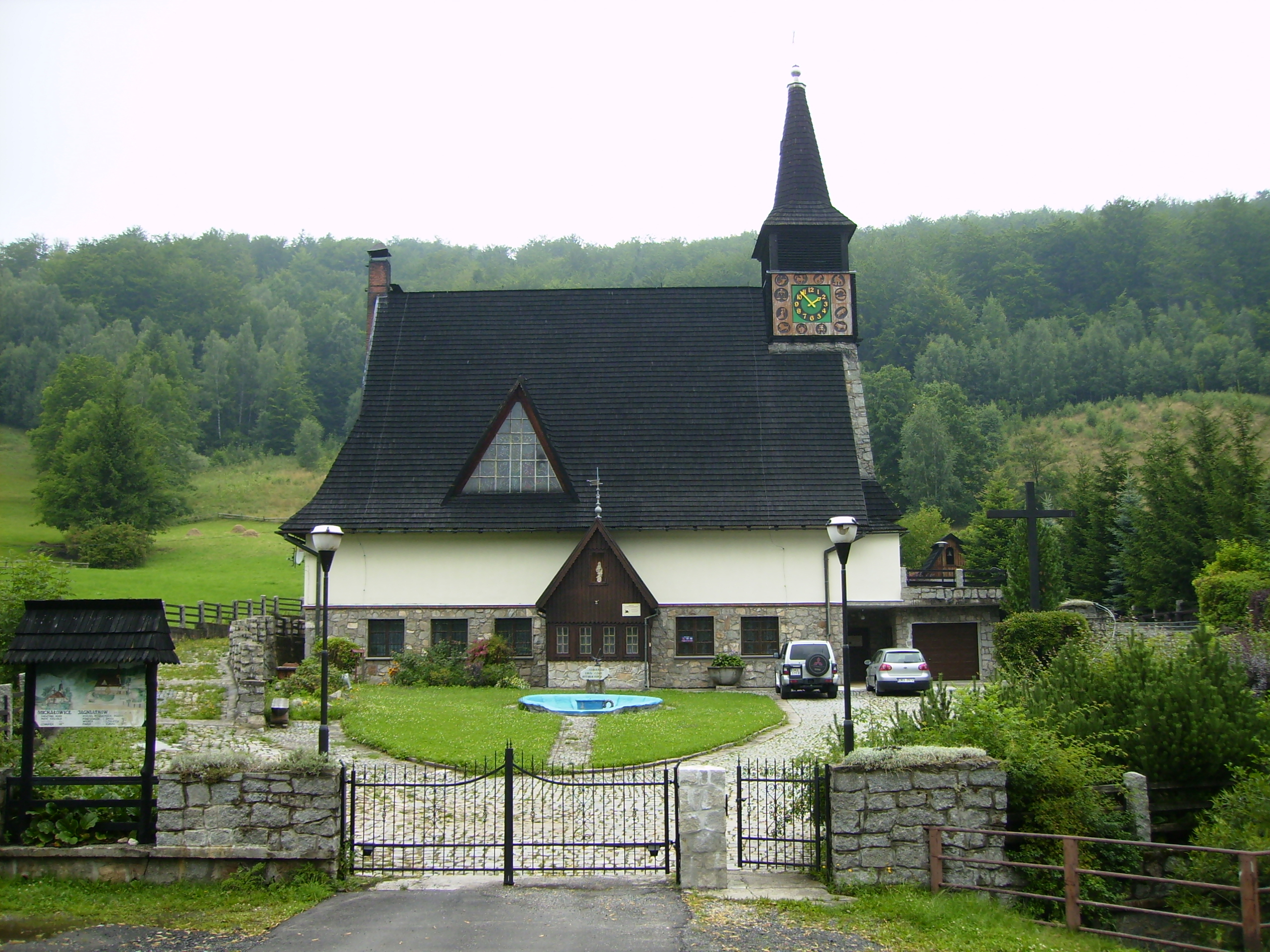 Church in Jagniątków, Poland.